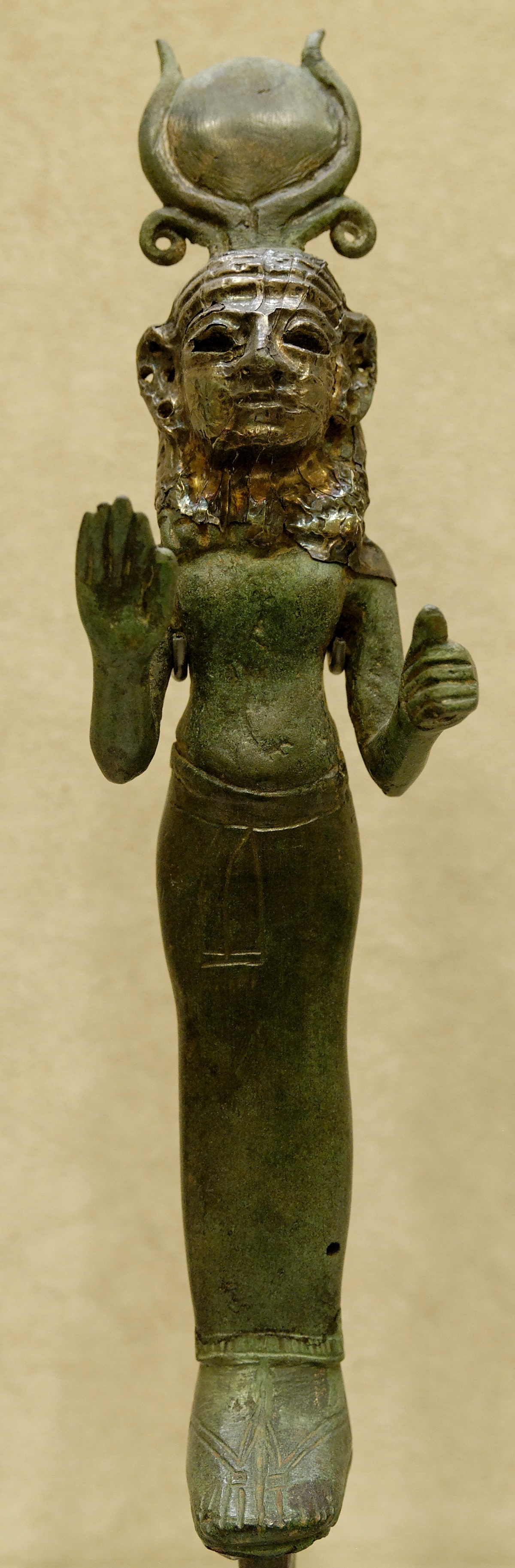 Blessing goddess with Hathoric hairdress. Silver-plated bronze, Phoenician art, 8th century BC.